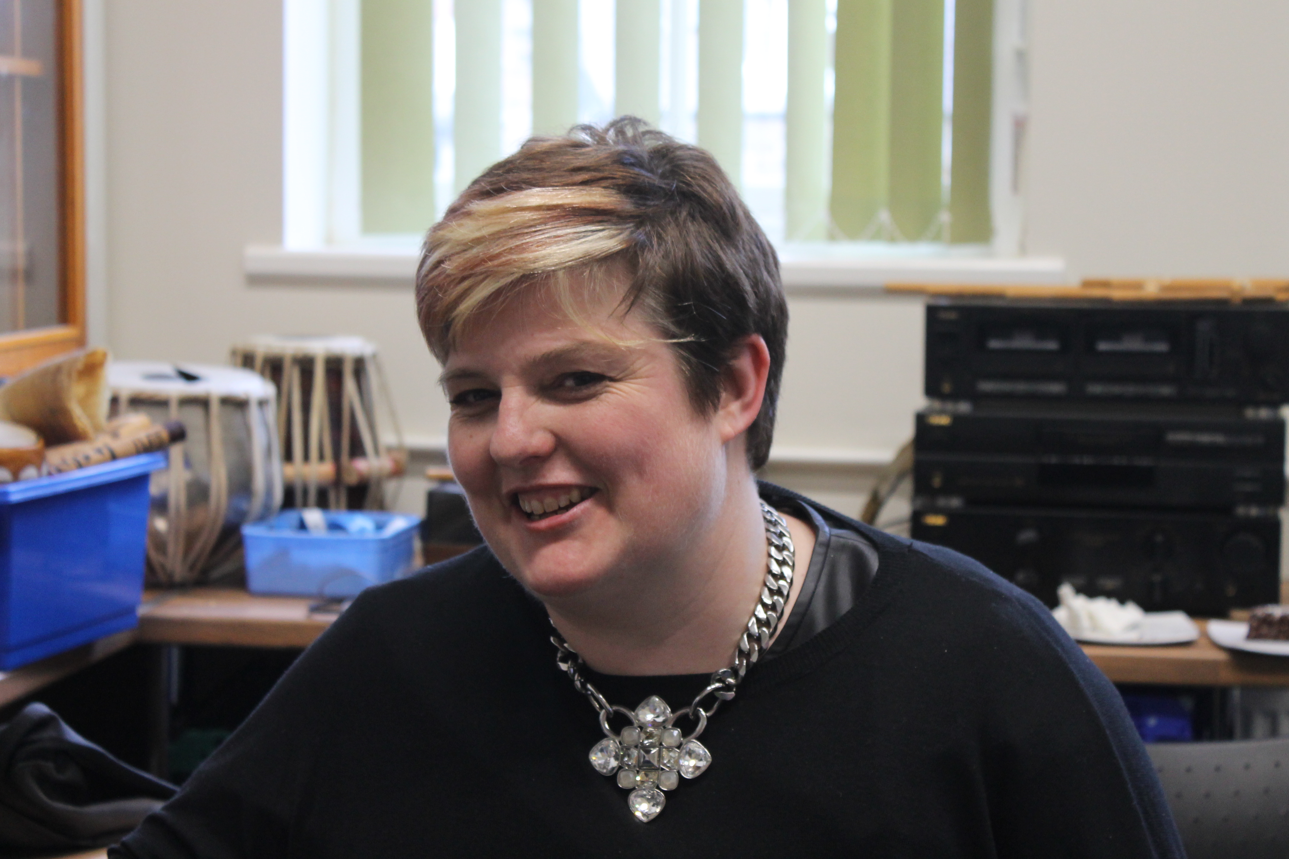 The Aberystwyth born electronic music composer jo Thomas at the Welsh language 'Wicipop' editathon at the Music School; University of Bangor; Feb 2017.